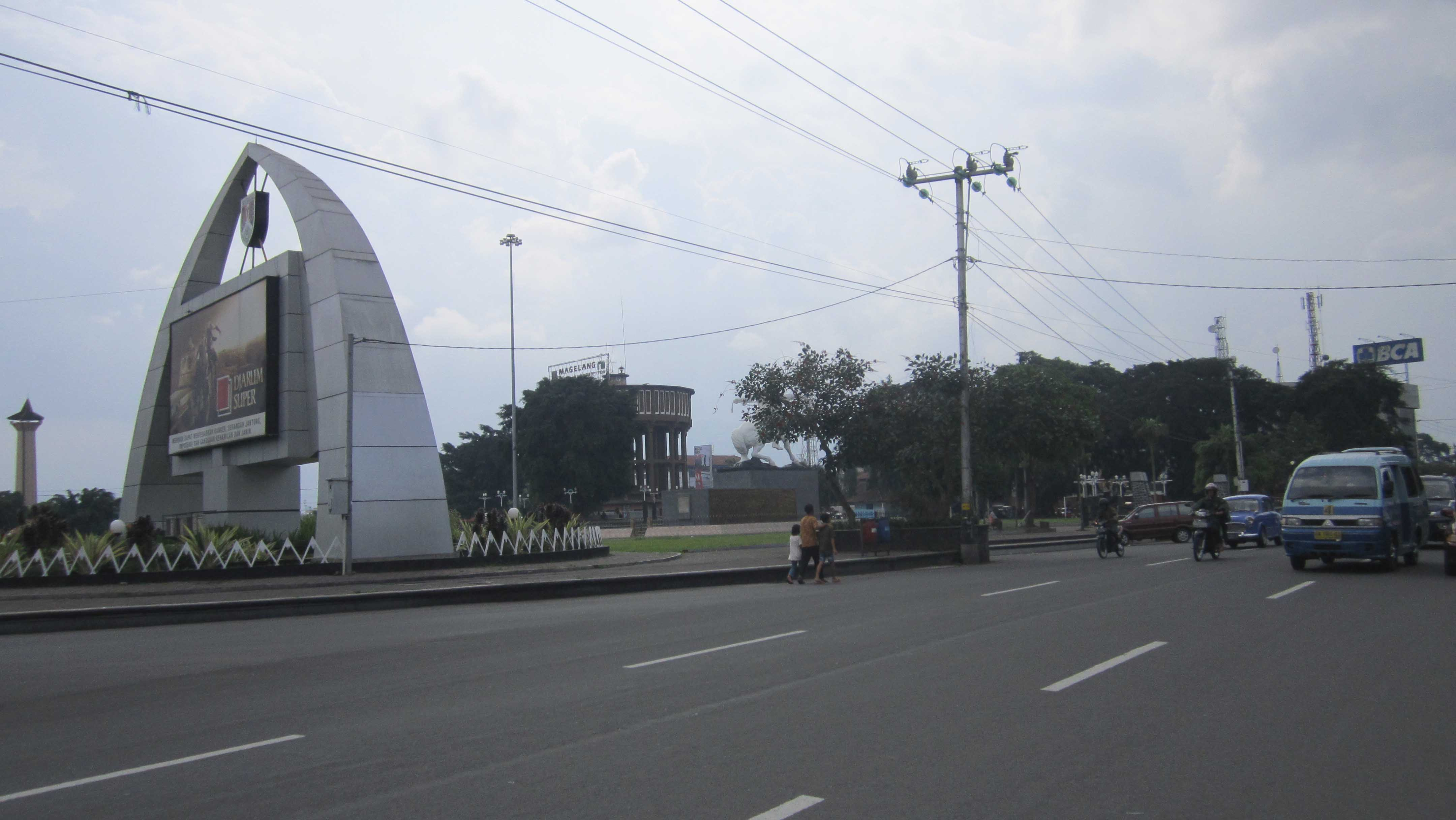 south view of alun alun magelang central park